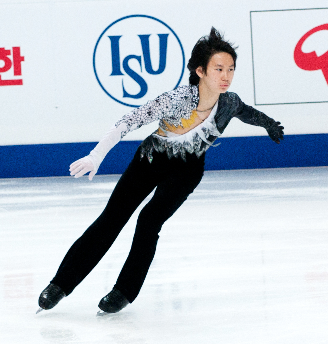 2011 World Figure Skating Championships, free skating.